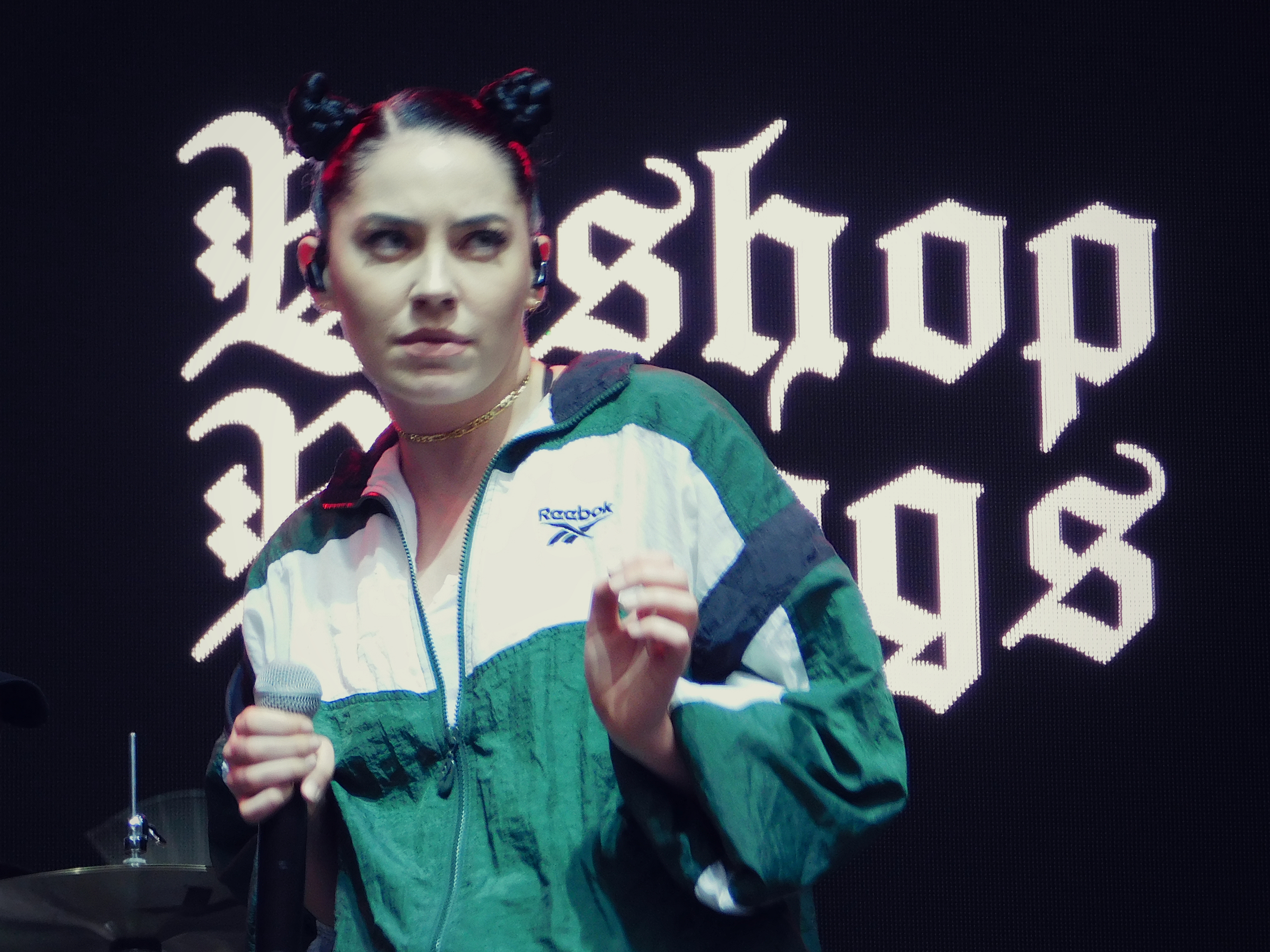 Bishop Briggs performs at Lollapalooza in Chicago, Illinois on August 4, 2017.